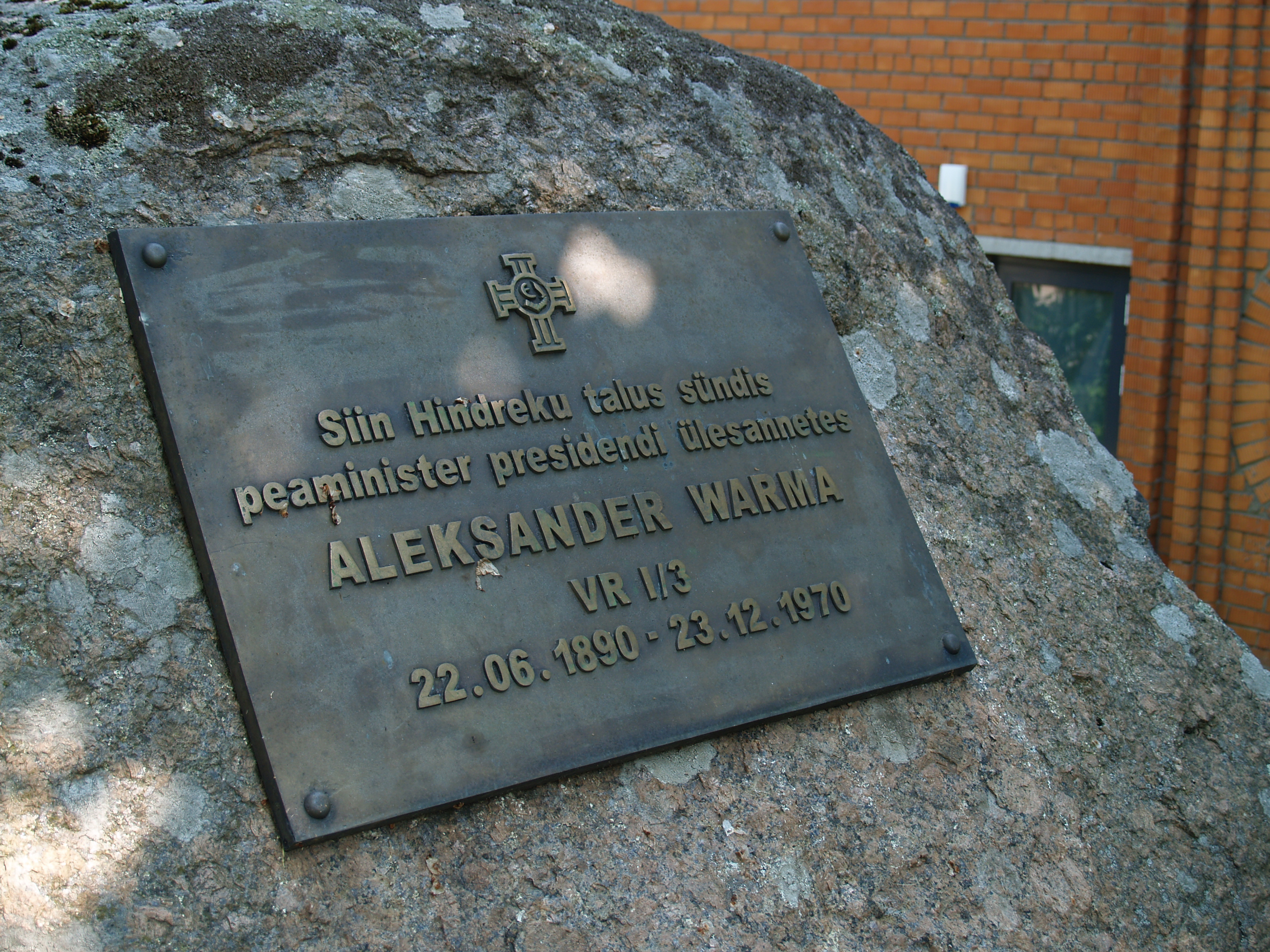 Memorial stone for Aleksander Warma.